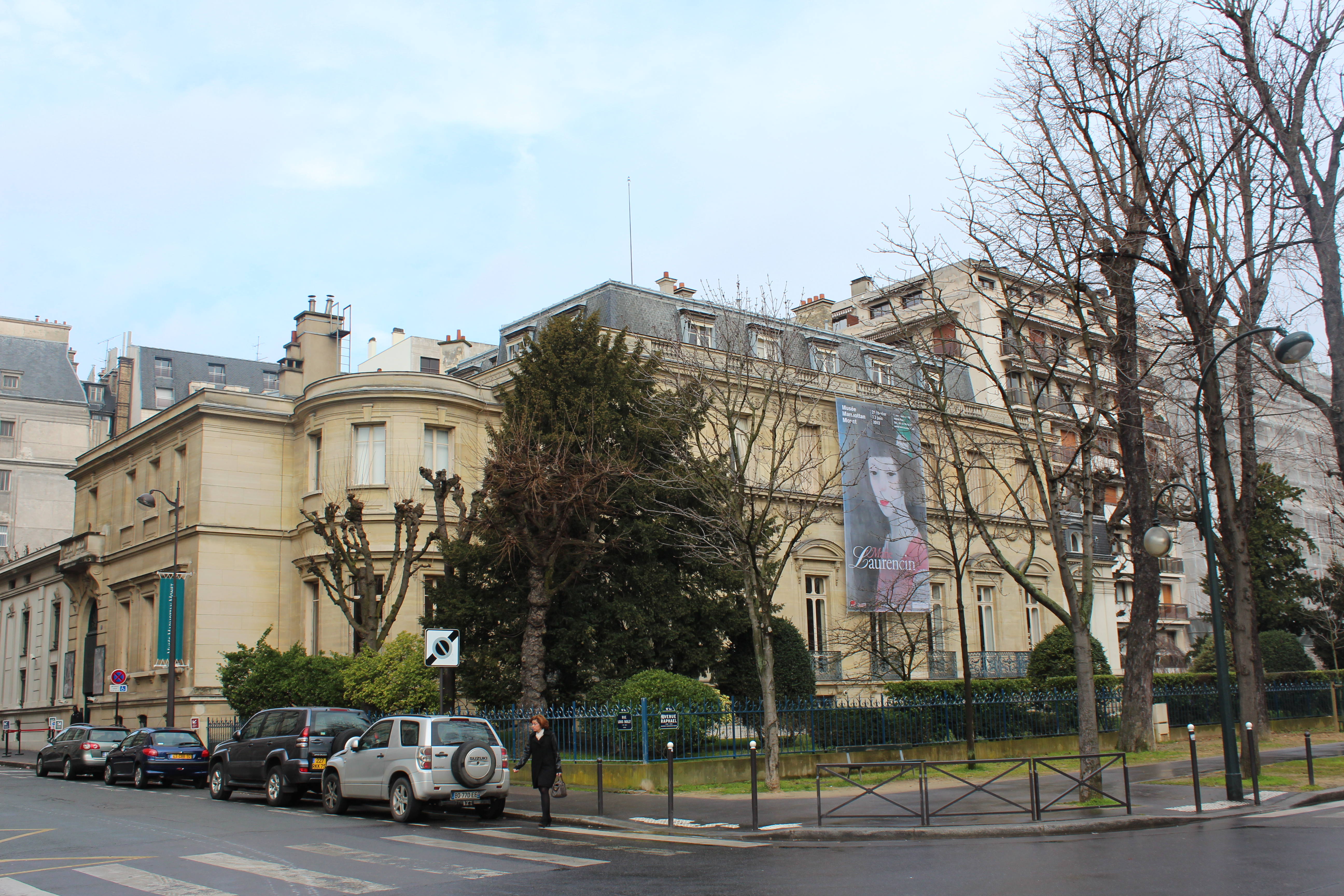 Musée Marmottan Monet, Paris, March 2013